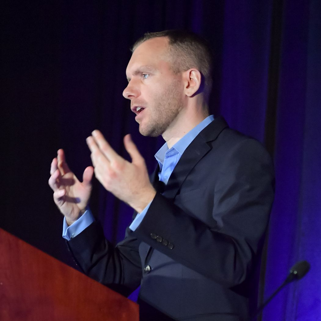 Jonas Boetel of Unknown Worlds Entertainment at the Game Developers Conference 2019